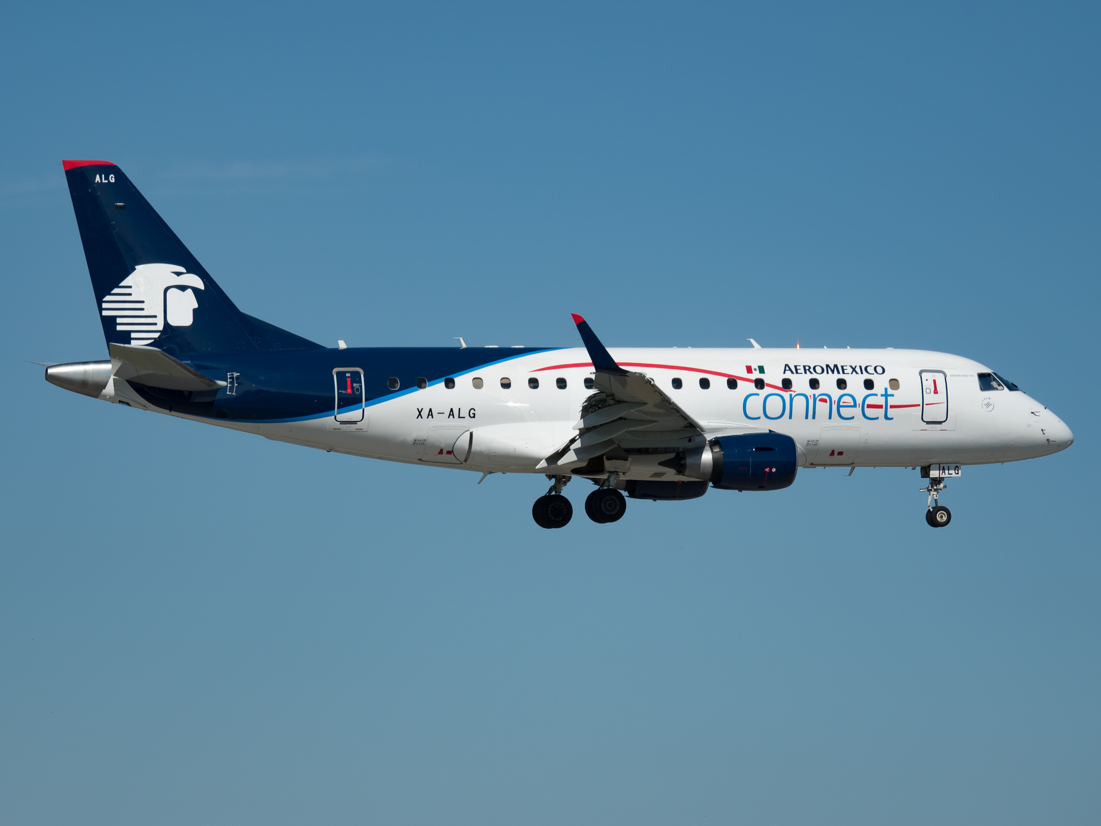 Aeromexico Connect Embraer ERJ-170STD (ERJ-170-100) at Miami International Airport